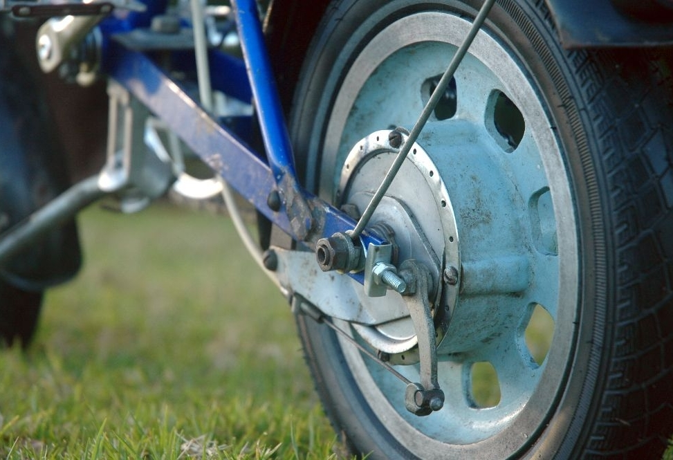 Sturmey-Archer drum brake set in cast alloy rear wheel of Bootie folding bicycle 1965-73